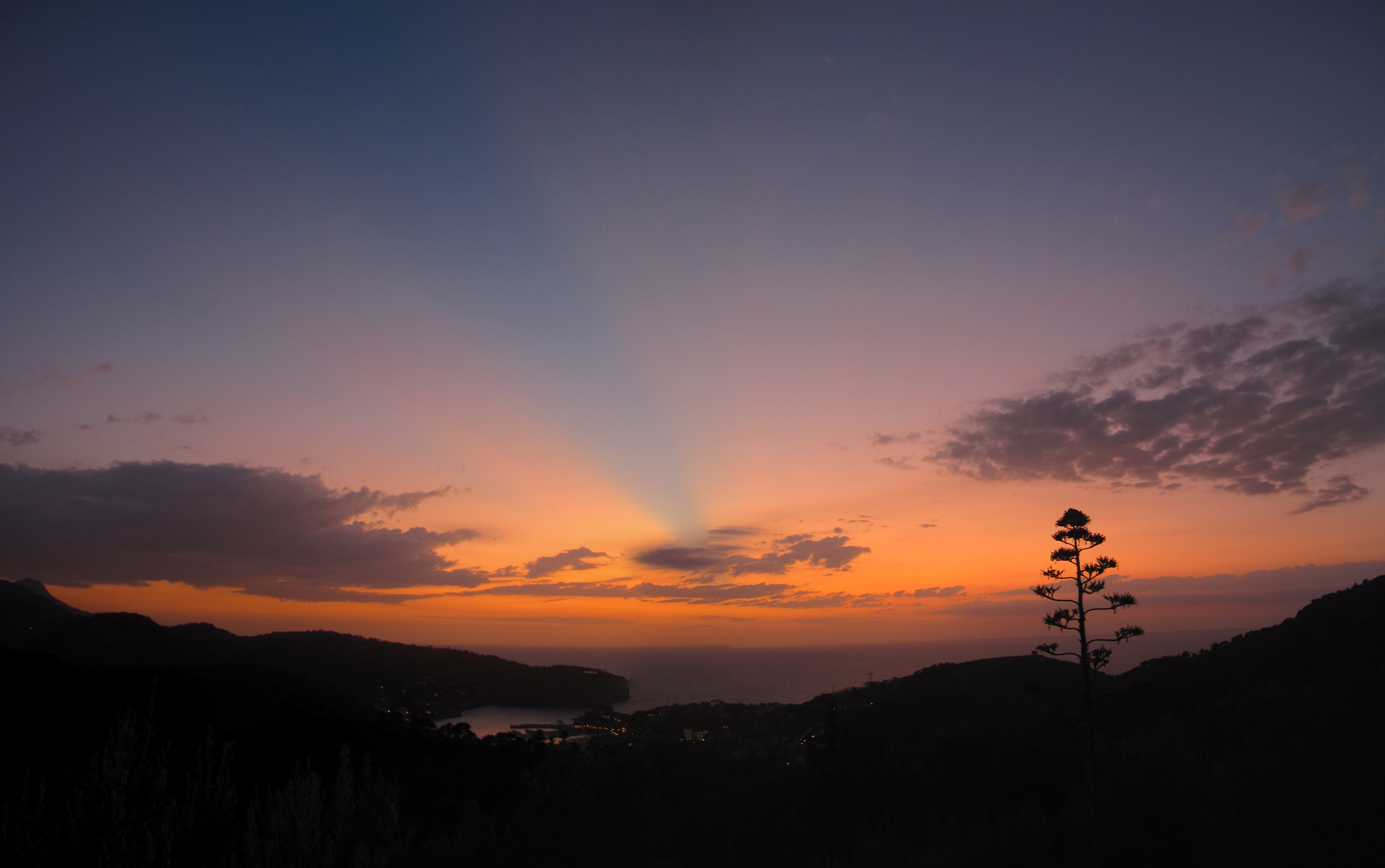 View of Port de Sóller